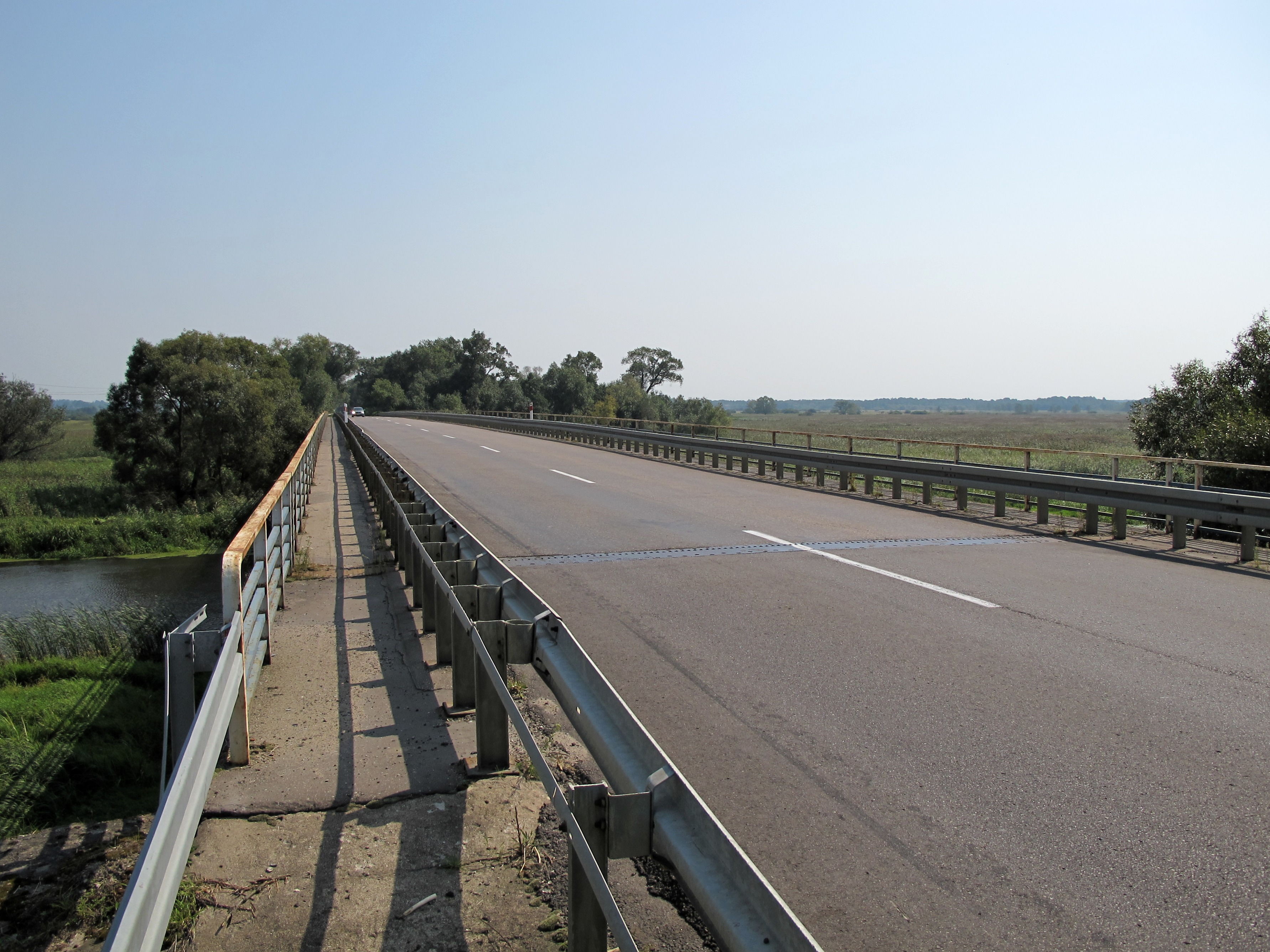 Bridge over the Narew river in VR678 between villages Baciuty (gmina Turośń Kościelna) and Baciuty (gmina Łapy), podlaskie, Poland